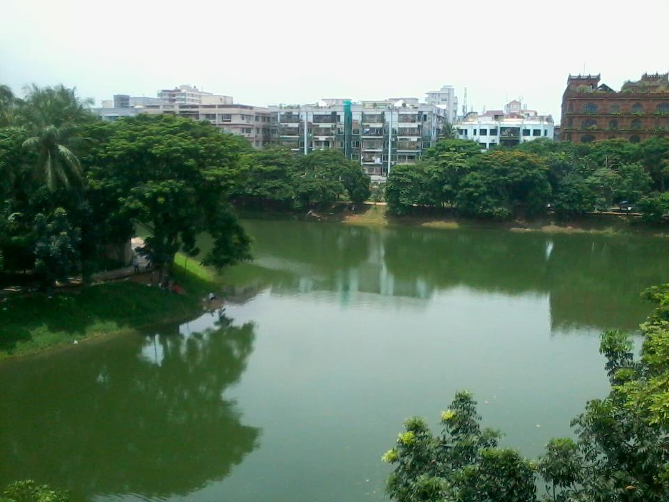 It's one of the most beautiful place in Dhaka city. Thousands of people come here regularly to enjoy the view with family or friends. It's located from road number-2 to road number-32 Dhanmondi. its a very lovely place with walking roads at the coast of the lake.